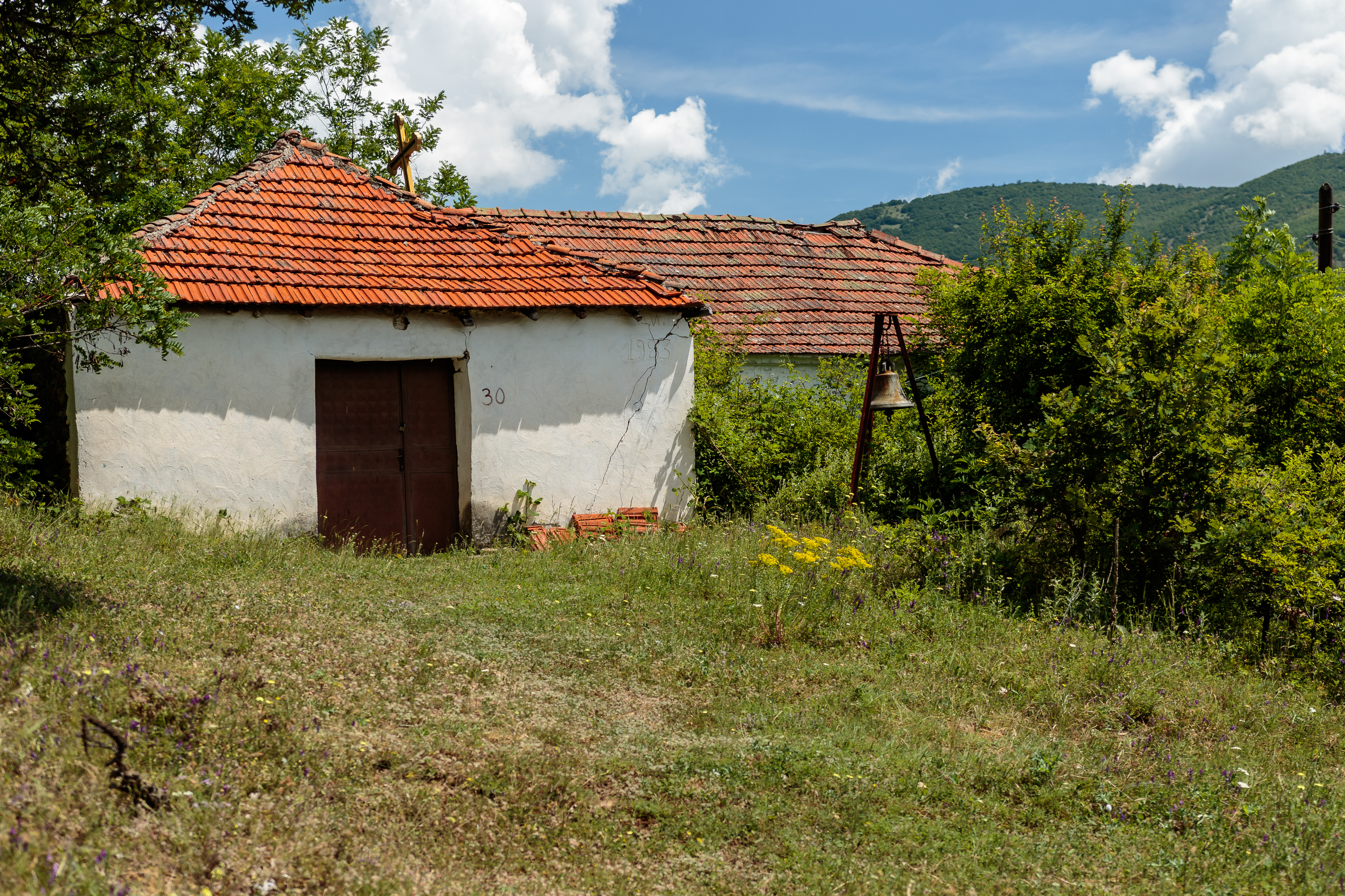 St. Michael the Archangel Church in the village Novo Selo